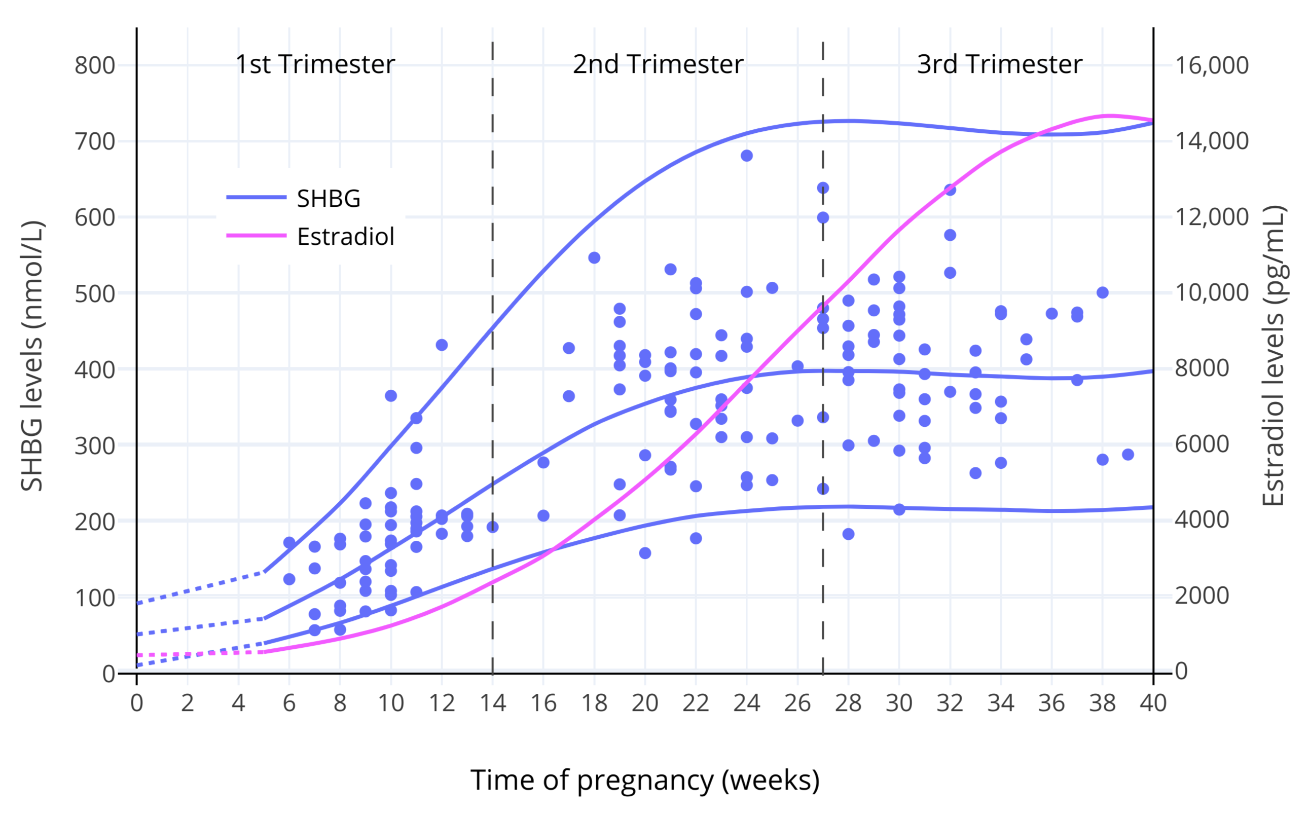 Levels of sex hormone-binding globulin (SHBG) (nmol/L or nM) and estradiol (pg/mL) during pregnancy in women. For SHBG the lines are the mean and 95th percentile levels while the points are individual measurements. For estradiol the line is the mean level. The dashed parts of the lines are extrapolated. SHBG and estradiol levels were measured using DELFIA and RIA, respectively. Source of the values: O'Leary P, Boyne P, Flett P, Beilby J, James I (1991). "Longitudinal assessment of changes in reproductive hormones during normal pregnancy". Clin Chem 37 (5): 667–72. PMID 1827758.